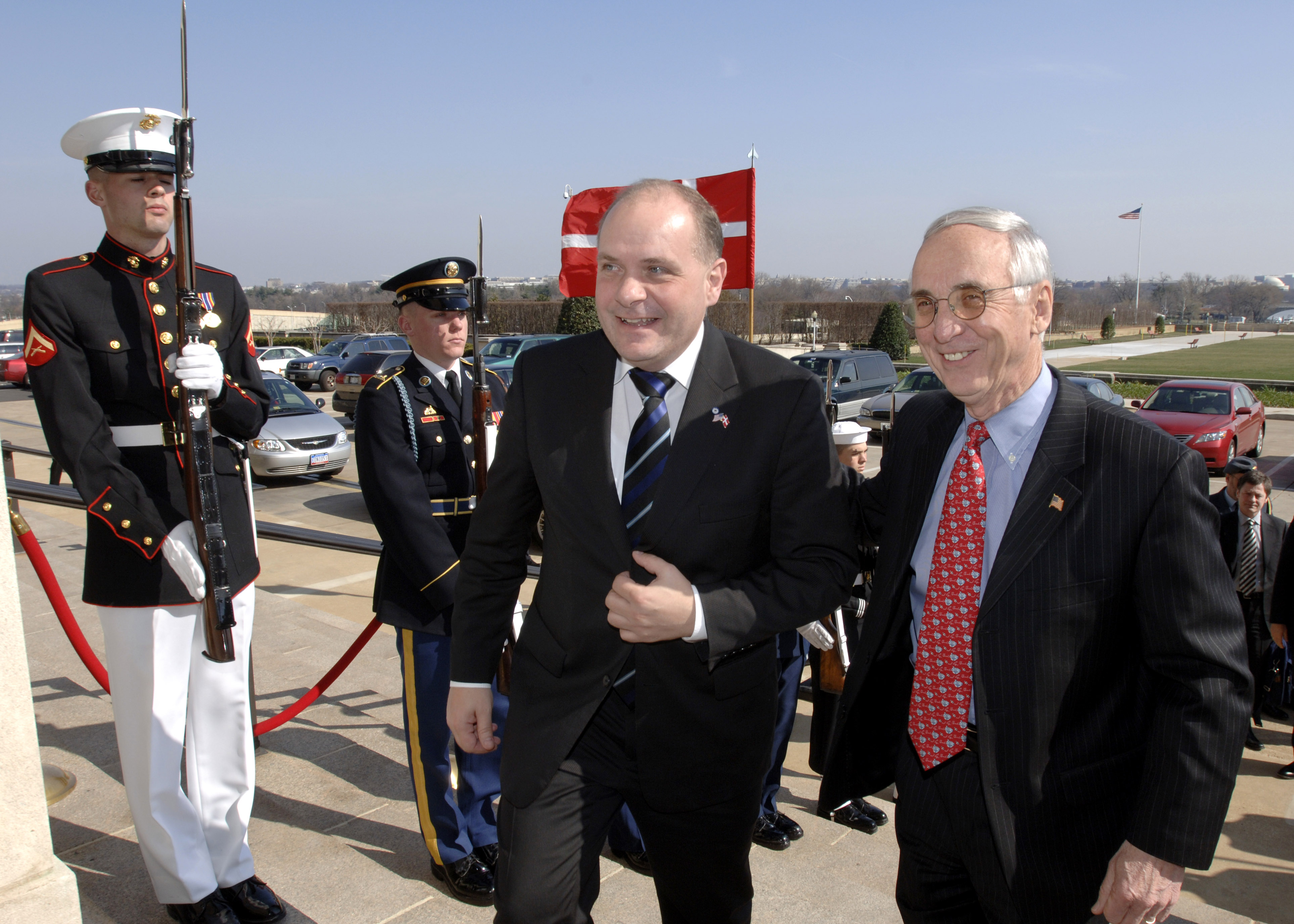 Deputy Secretary of Defense Gordon England (right) escorts Danish Defense Minister Søren Gade through an honor cordon and into the Pentagon for bilateral security discussions.